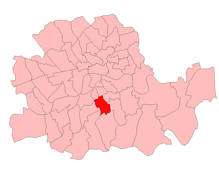 A map of Camberwell North West constituency within the London County Council area, as it existed from 1918 to 1949.